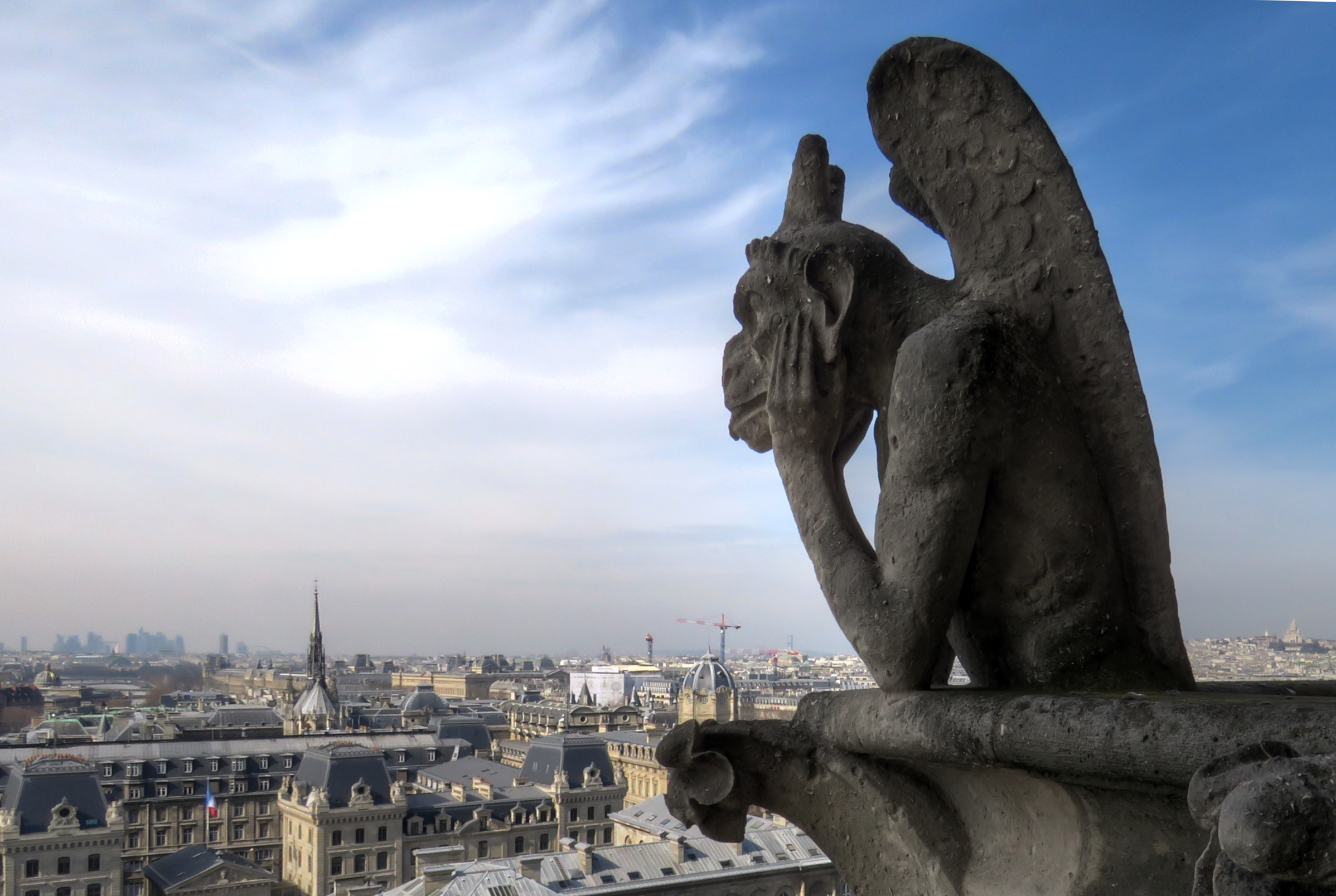 HDR image of "Le Stryge" gargoyle / chimera overlooking Paris atop Notre Dame cathedral.